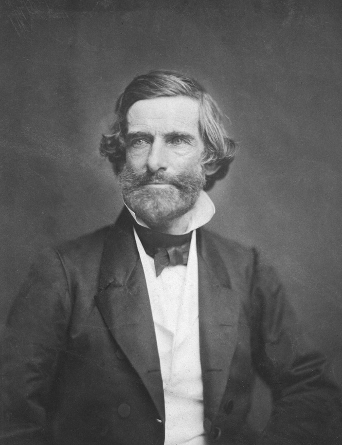 Sameul Gridley Howe.